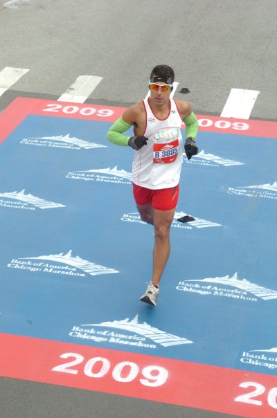 Roberto Garcia Lachner at Chicago Marathon